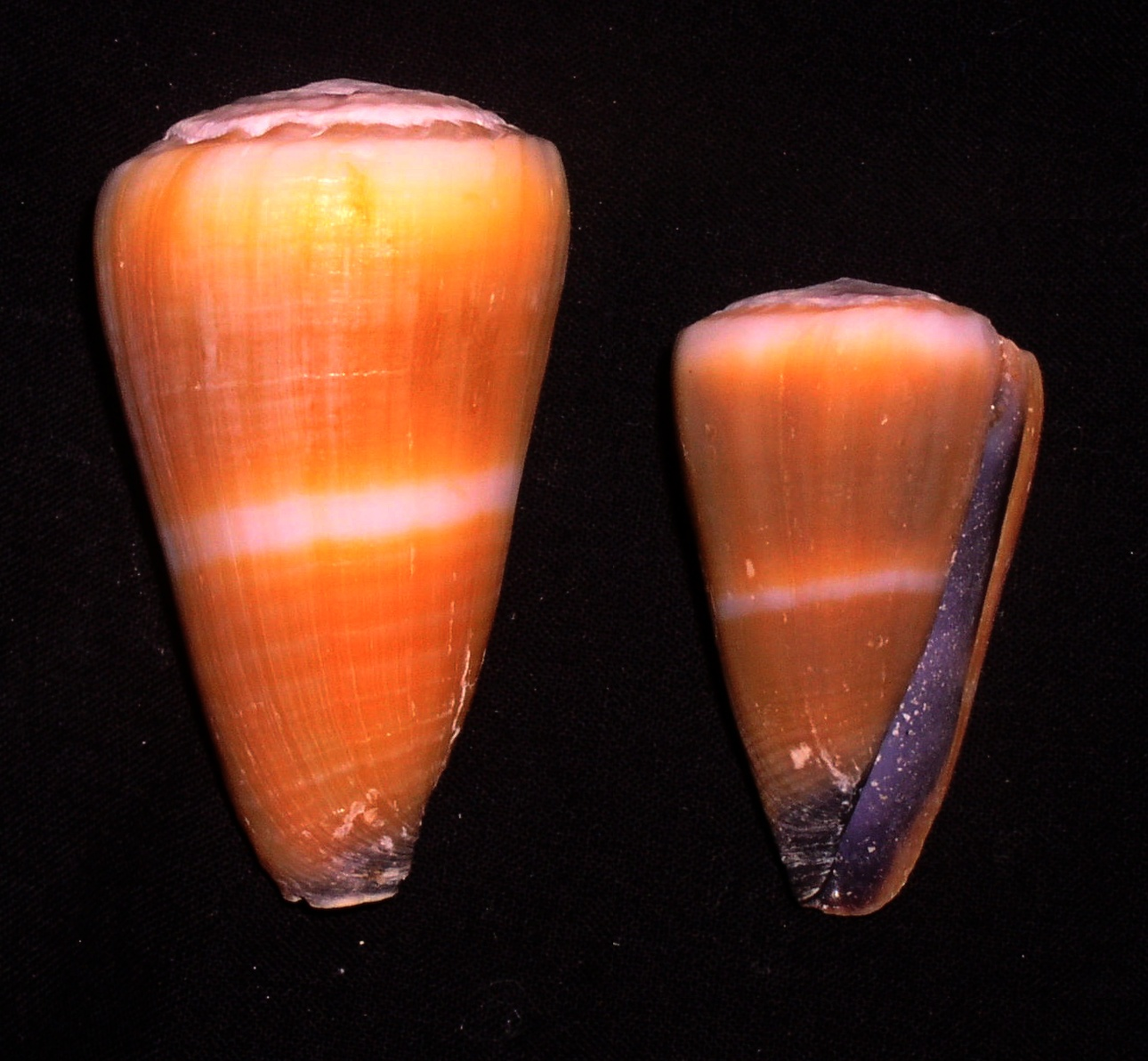 Yellow Pacific Cone - Conus flavidus